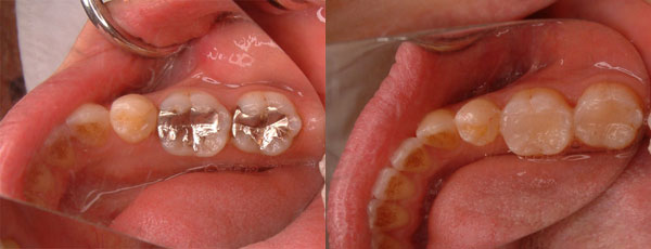 image of CEREC3D restoration